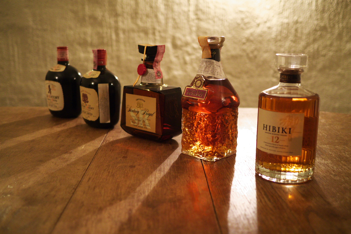 Old Suntory, bottled in the 1960's Old Suntory, bottled in the 1970's Suntory Royal, Bottled in the 1970's Suntory Excellence, bottled in the 1970's or 80's Suntory Hibiki 12yo, current